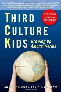 Cover of book Third Culture Kids: growing up among worlds, by David C. Pollock and Ruth E. Van Reken.